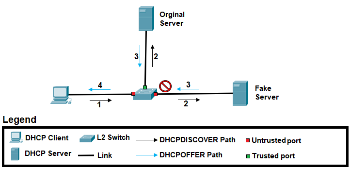 ِAn example of how does DHCP snooping work.